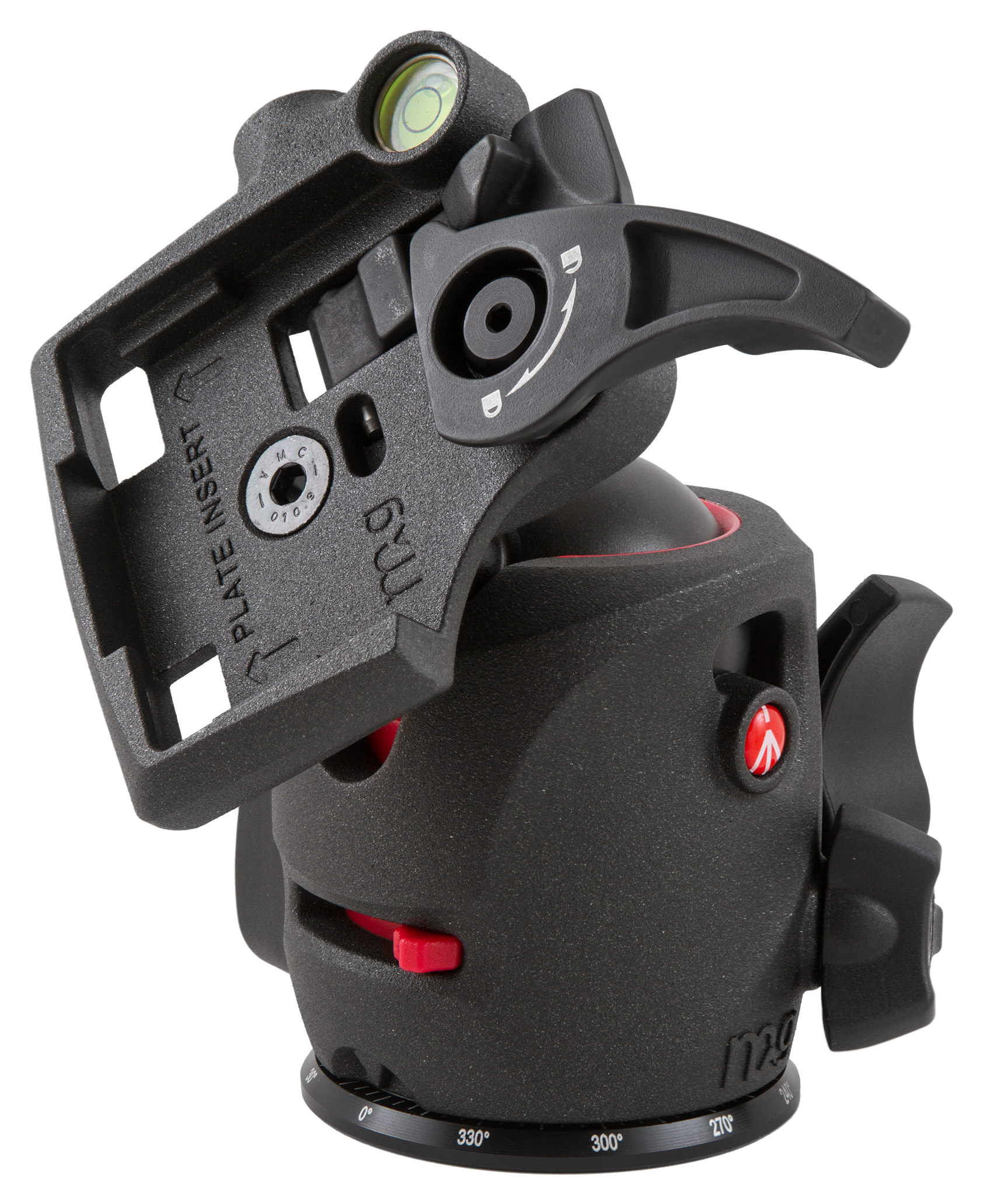 Manfrotto ball head without camera plate.